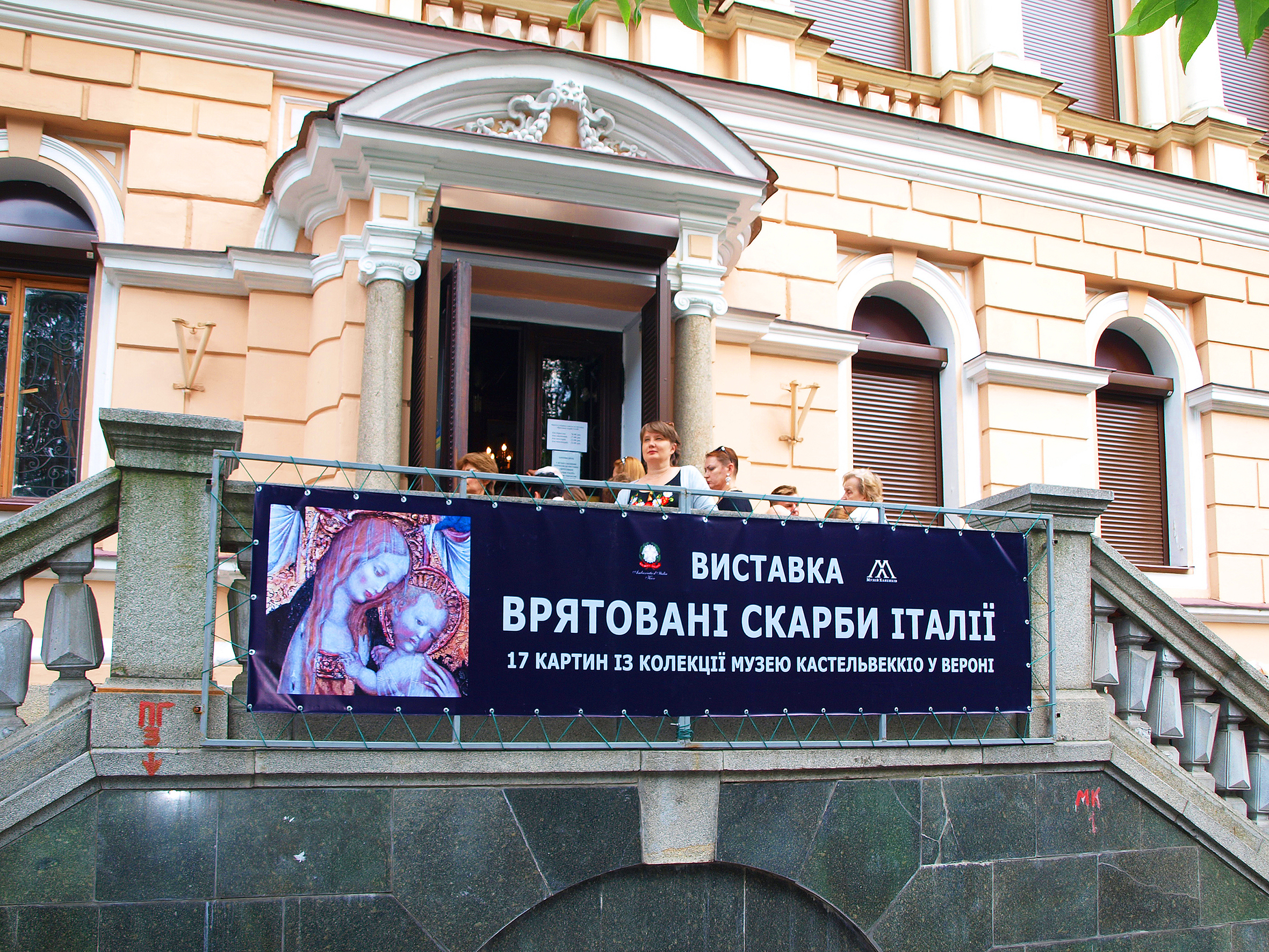 Museum of Western and Oriental Art